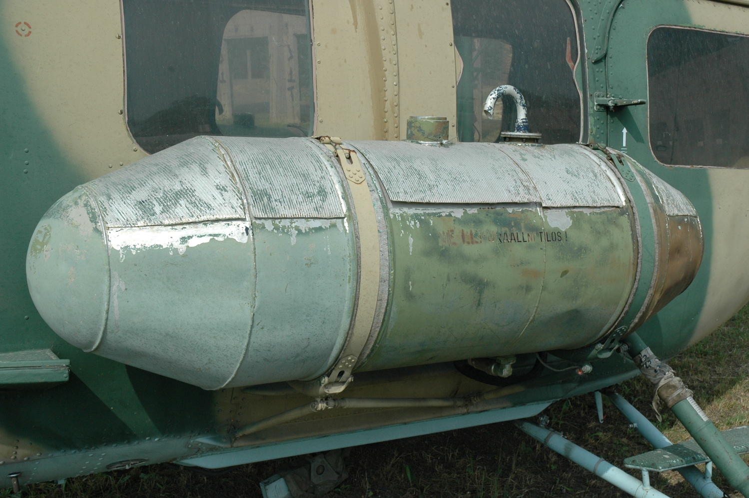 Mil Mi-2